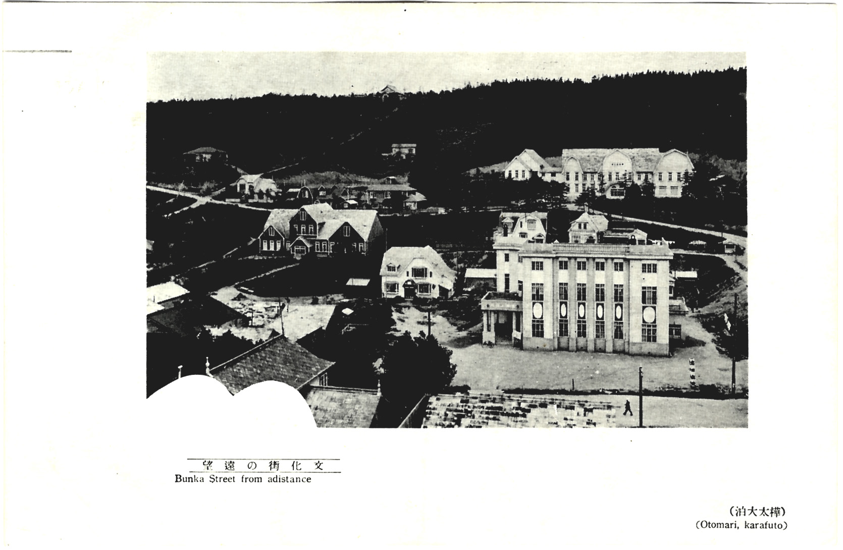 Japanese postcard of Bunka street in Oodomari in Karafuto (now Korsakov, Sakhalin region, Russia)